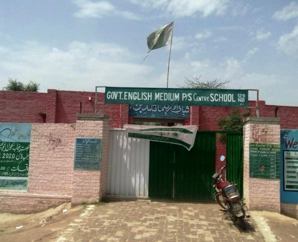 School